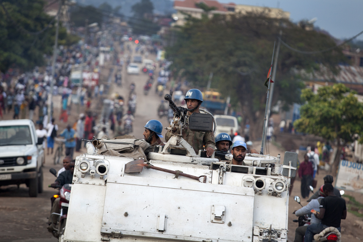 MONUSCO Pakistany Peacekeepers patrolling the streets of Uvira in South Kivu , the 22nd of October 2012. © MONUSCO/Sylvain Liechti